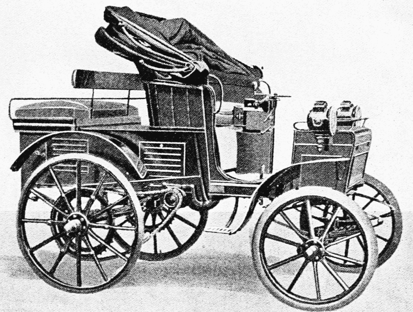 Jennatzy dog phaeton